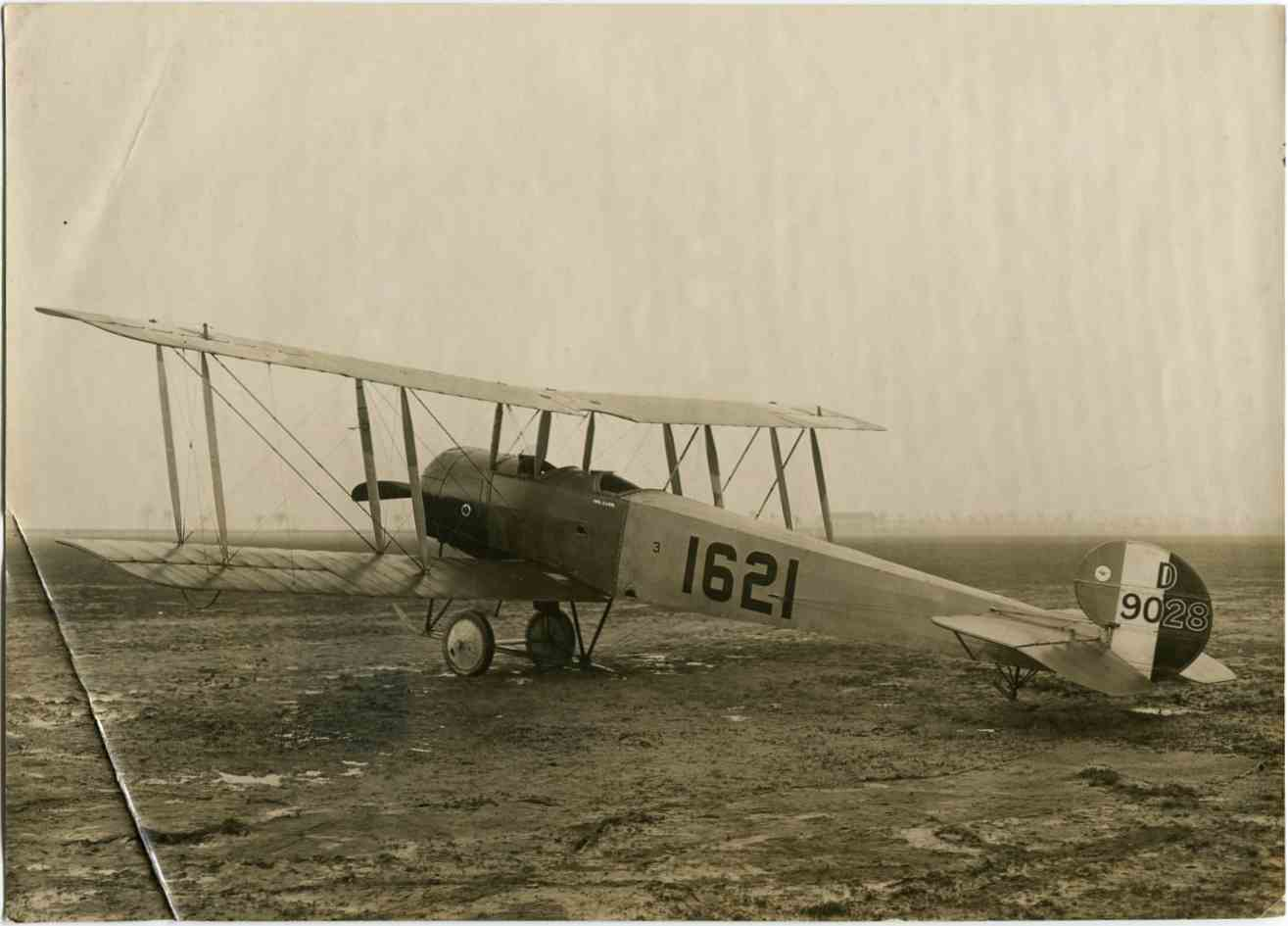 Side view of the personal Avro 504 series biplane (#1621) of Col. Frank P. Lahm, commander of the 2nd U.S. Army Air Service, sitting on a muddy airfield somewhere in France during World War I (circa 1918) [Photograph by: 3rd Photo Section, U.S. Army] --From Henry L. Graves Papers, WWI 55, Military Collection, State Archives of North Carolina